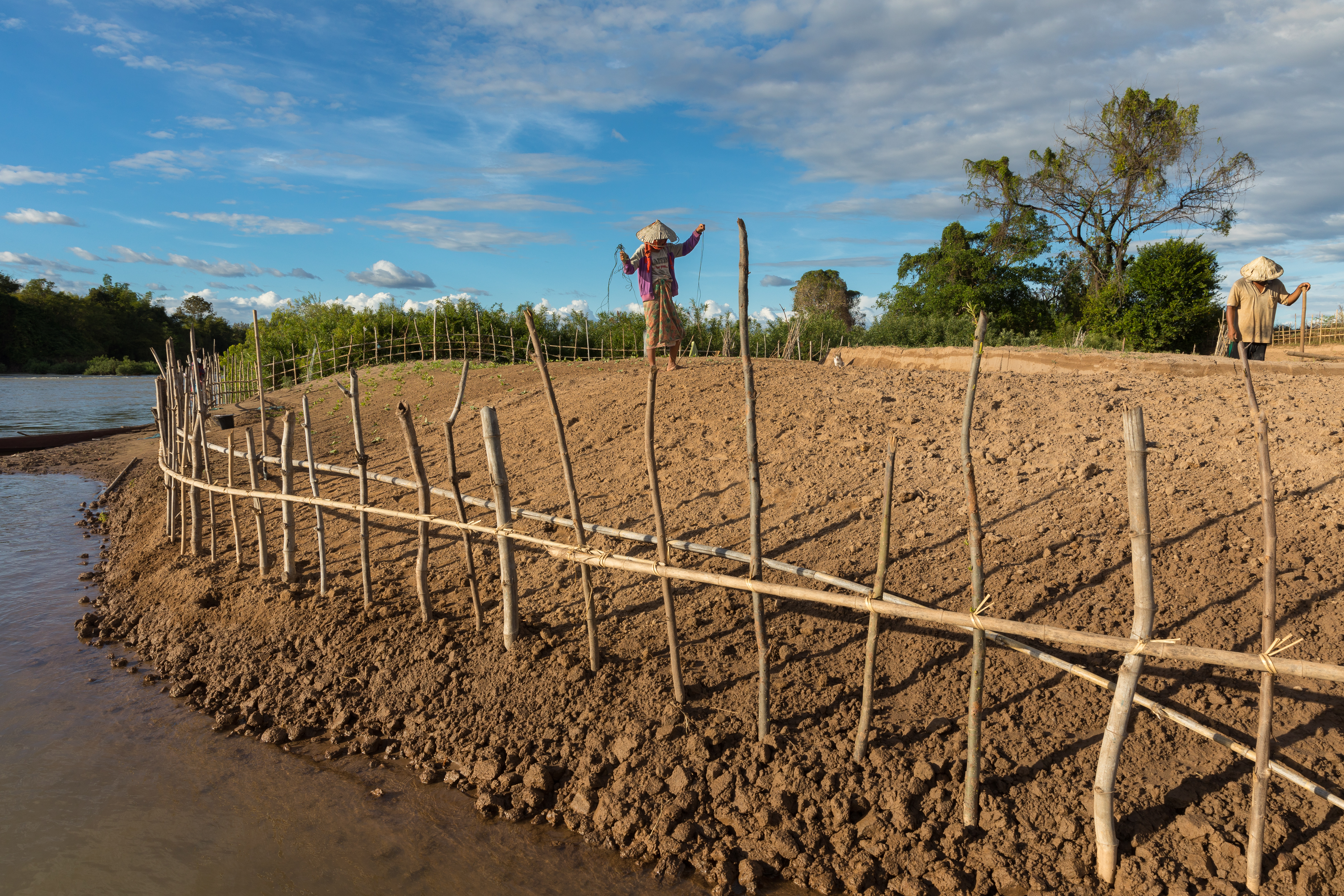 Wooden fence on a Mekong bank, around a small cultivated island near Don Loppadi, in Si Phan Don (4000 islands), Laos, with a couple working. The woman is unraveling a tuft of thread and the man is spading. The fence is a protection to prevent intruders from cultivating the same land. This small ground certainly doesn't belong to anyone officially, or the official owner just doesn't care. Since this tiny island is totally submerged during the monsoon, the first locals who decide to settle there after the recession of the Mekong need to give a clear signal to the neighborhood that the domain is not available anymore.